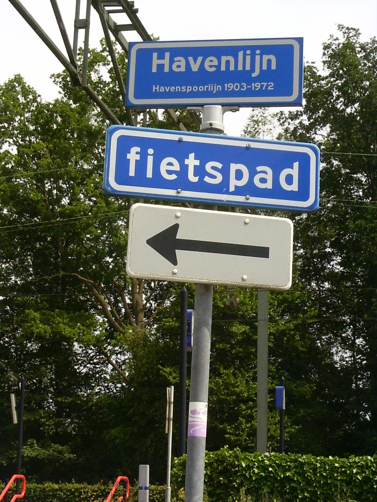 Streetsign harbour line bikeway Nijkerk